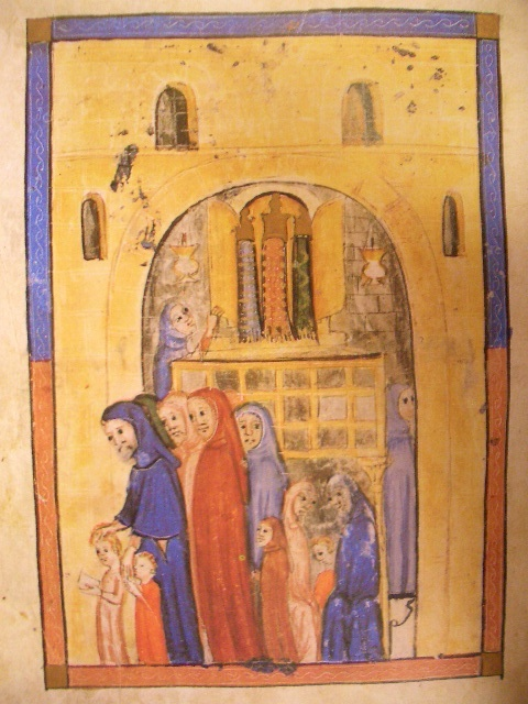 One of pictures from Sarajevo Haggadah produced in Barcelona or Saragosa, approximately around 1350. Currently found in Sarajevo.